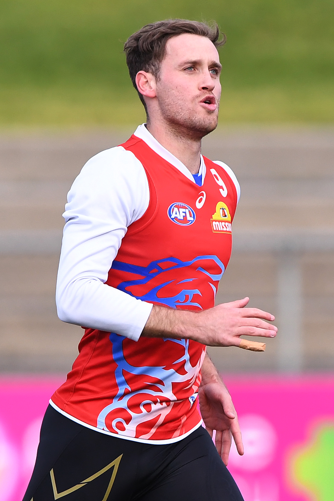 Hayden Crozier of the Western Bulldogs during Western Bulldogs training on 7 August 2018 at Whitten Oval in Melbourne, Victoria.